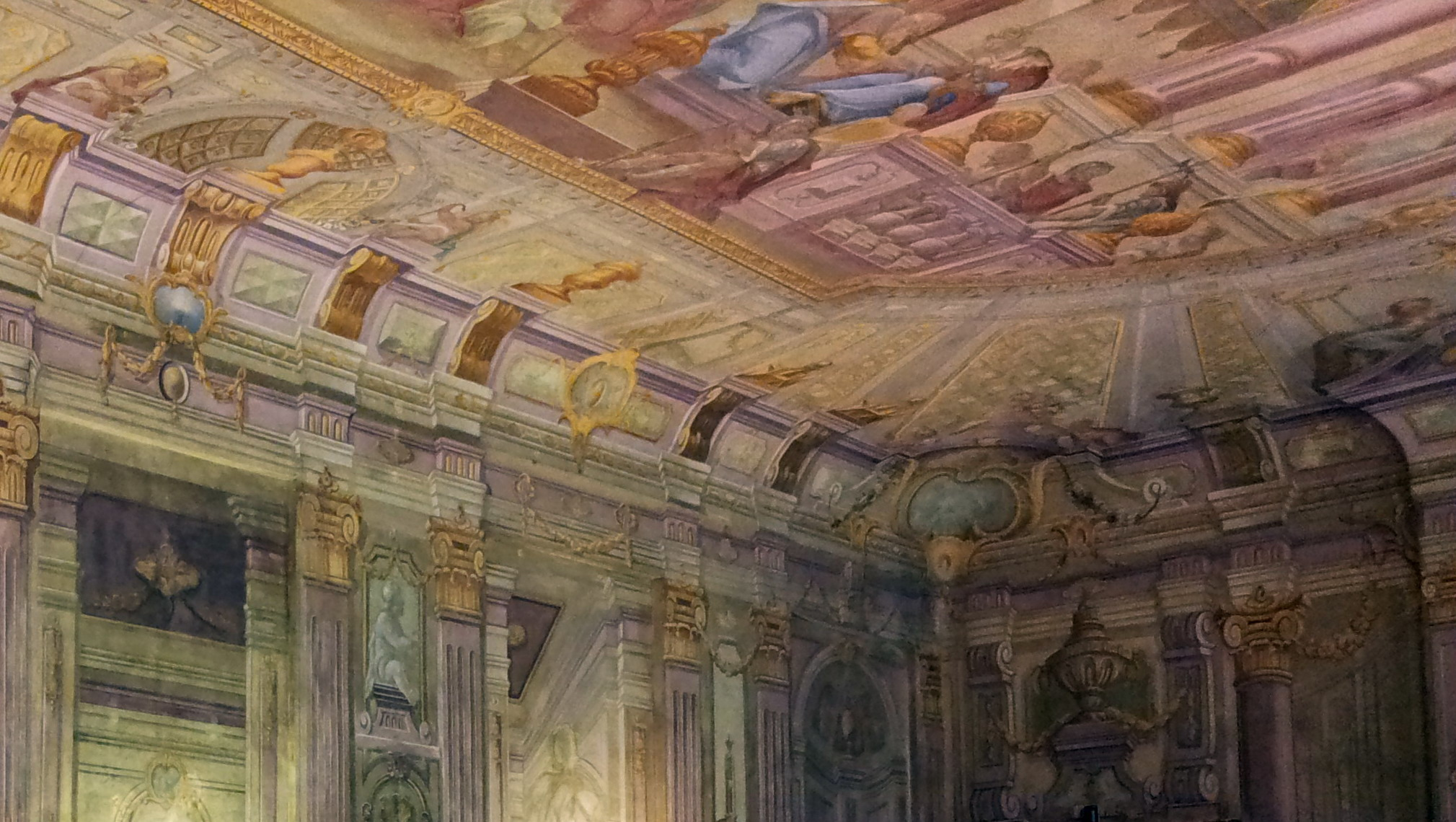 Interior of Keizerszaal, one of the 18th-c abbey buildings, designed by Laurent-Benoît Dewez, formerly part of the Benedictine Abbey of Saint Trudo in Sint-Truiden, Belgium.